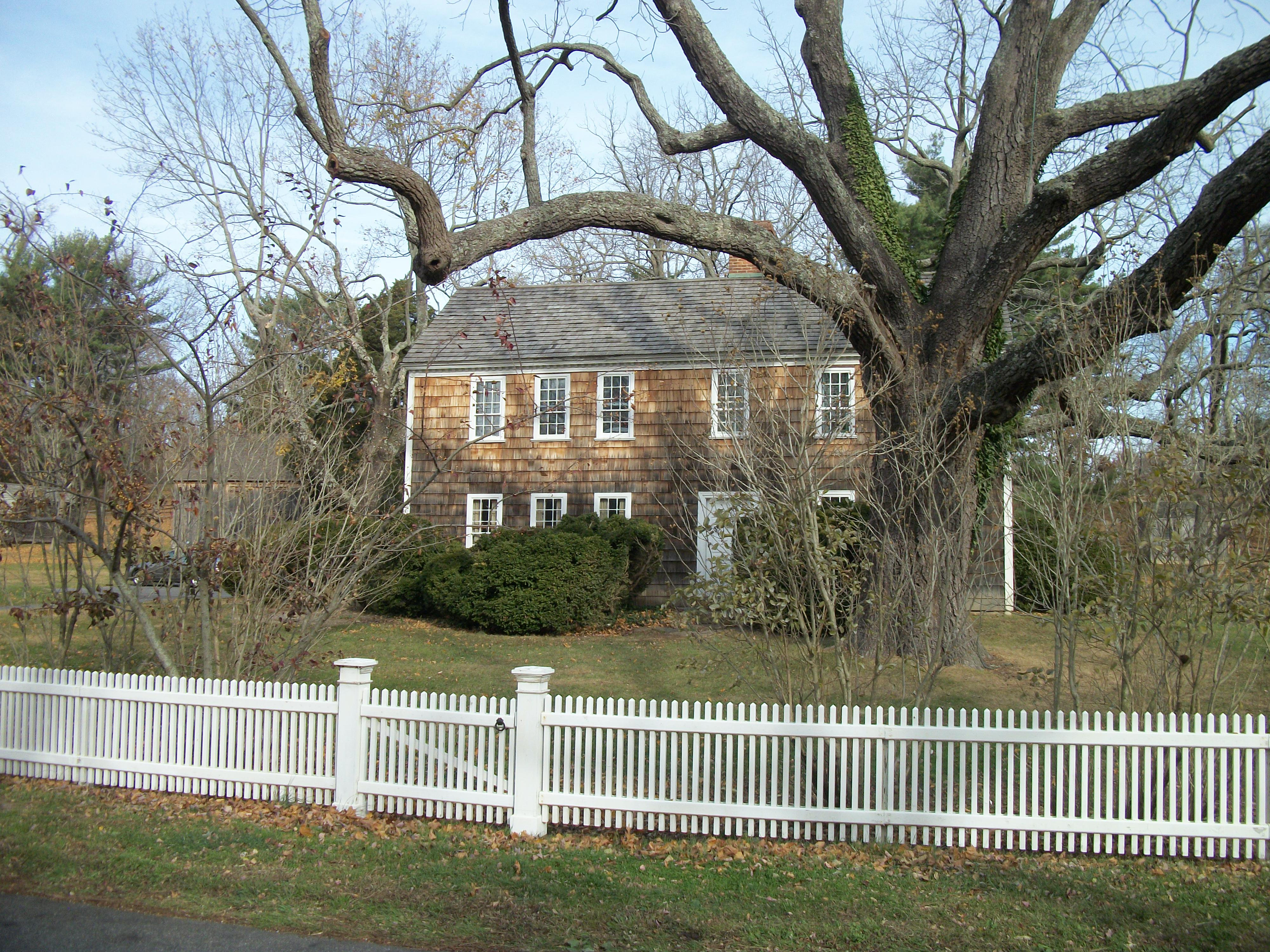 The historic Sherwood-Jayne House in East Setauket, New York. Details and a potential rename of the image to come later.